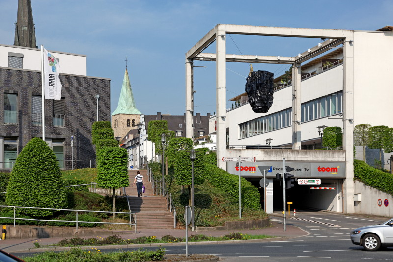 The picture shows the installation "Schwarzes Gold" by Kirsten and Peter Kaiser in Dorsten.